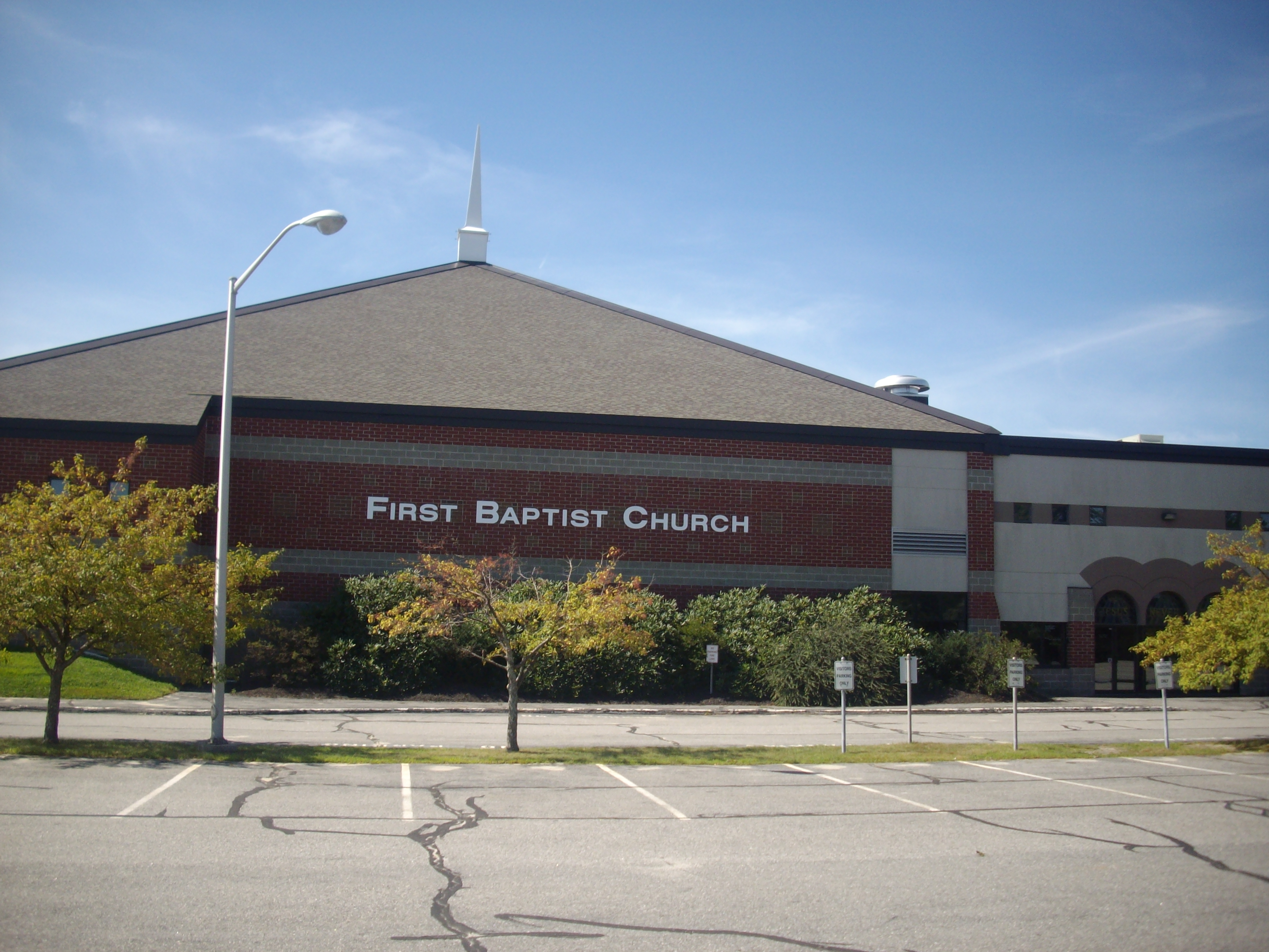 The First Baptist Church on Washington Avenue in North Deering, Portland